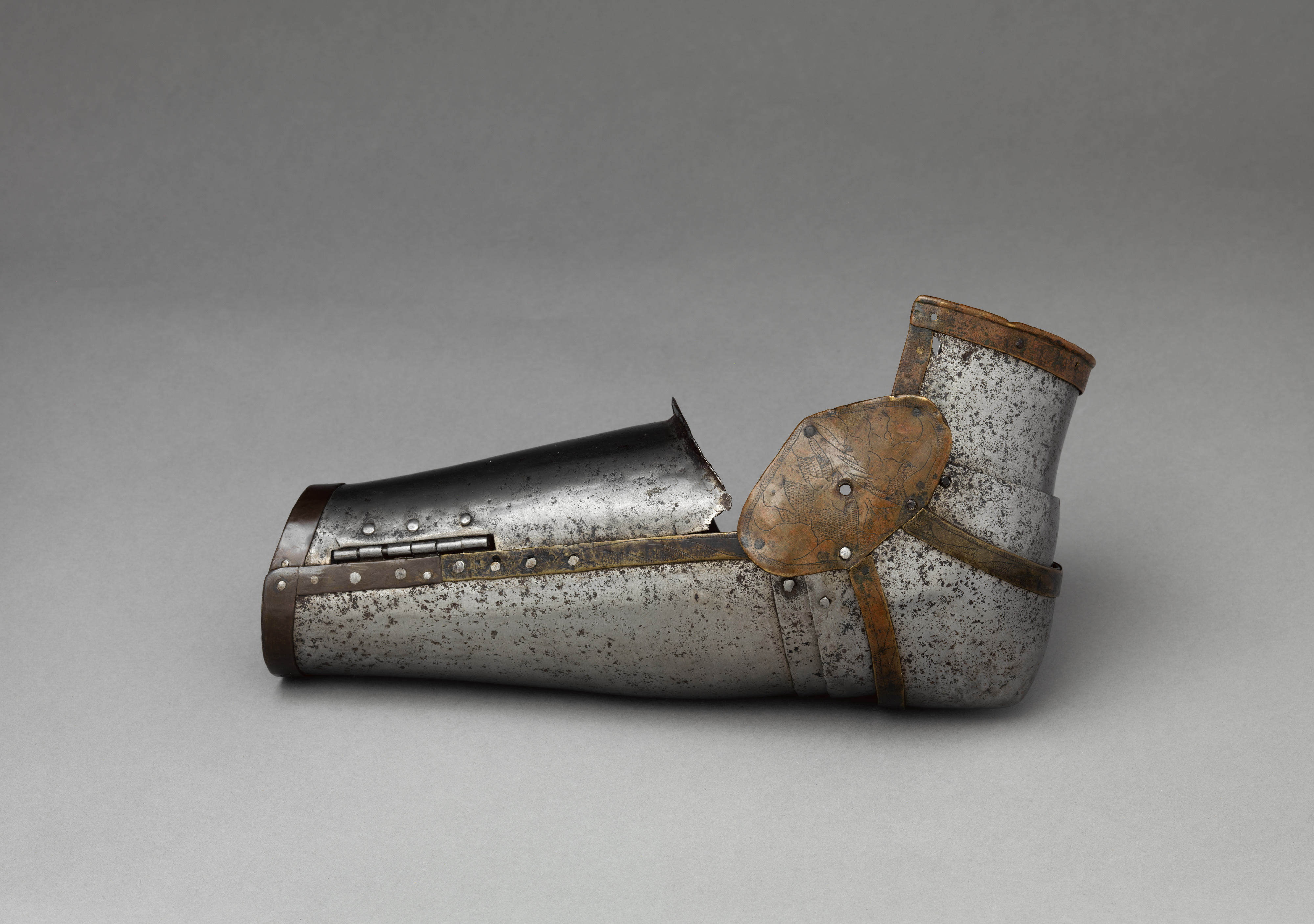 Italian; Left arm defense (Vambrace); Armor Parts-Arms & Shoulders